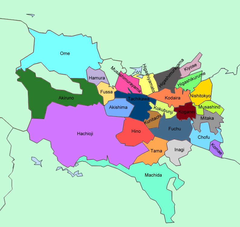 Map of cities within Western part of Tokyo Metropolis Category:Tokyo